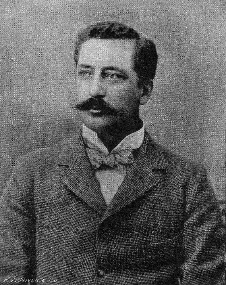 Scan from original